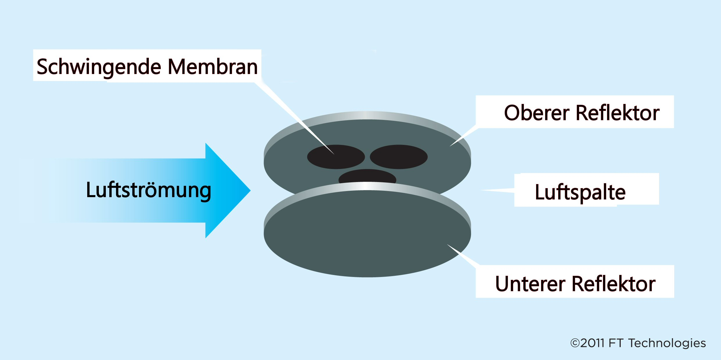 Messprinzip der Akustischen Resonanz (Ultraschall Anemometer)